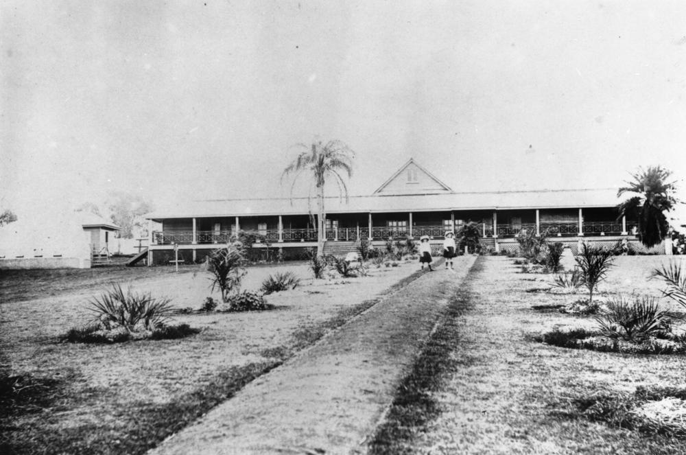 Homestead at Nindooinbah Station, ca. 1908. Two girls pose on the garden path leading to the homestead on Nindooinbah Station, around 1908.